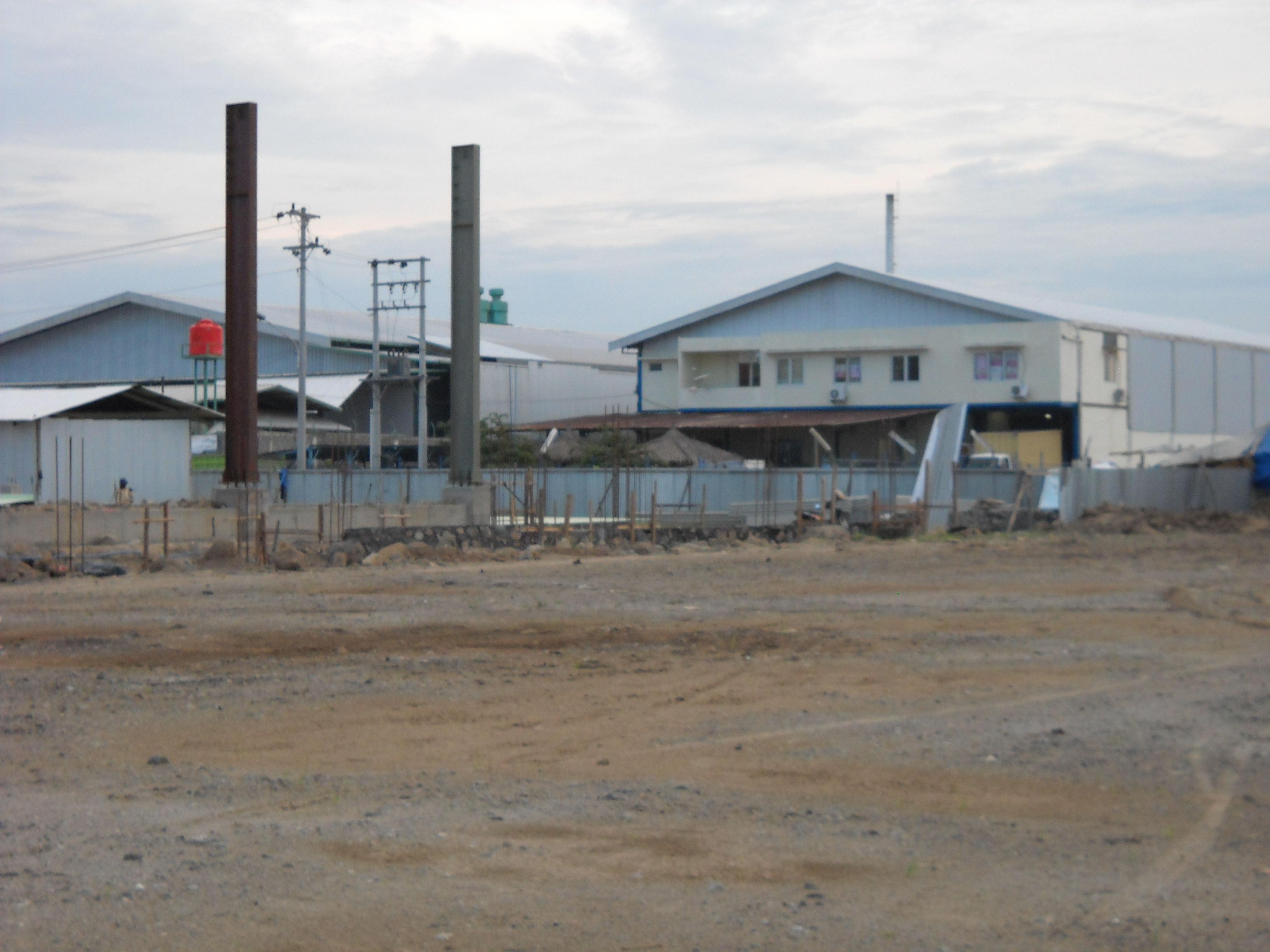 kiw111